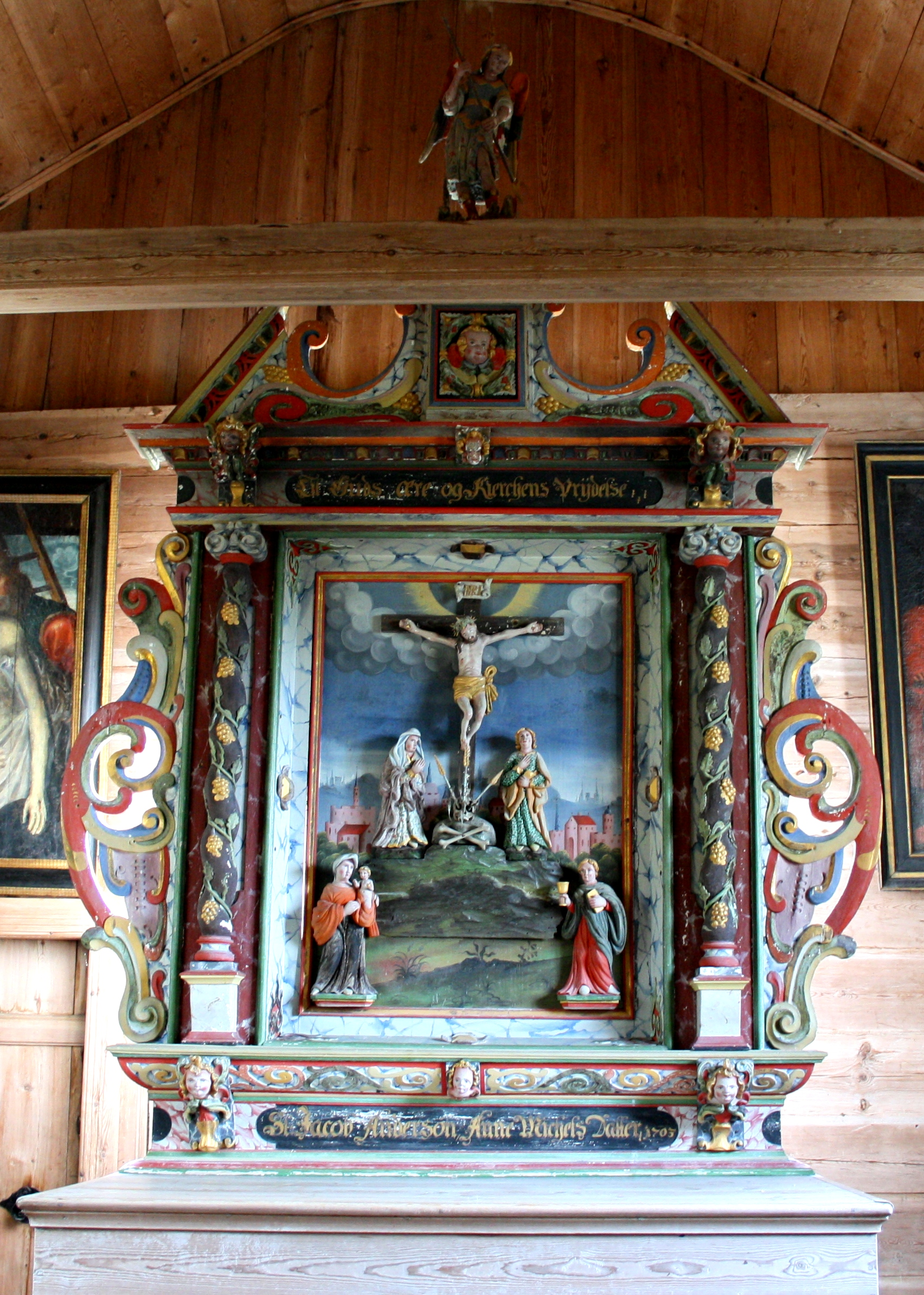 Altar at Lysekloster kapell, Os, Hordaland, Norway